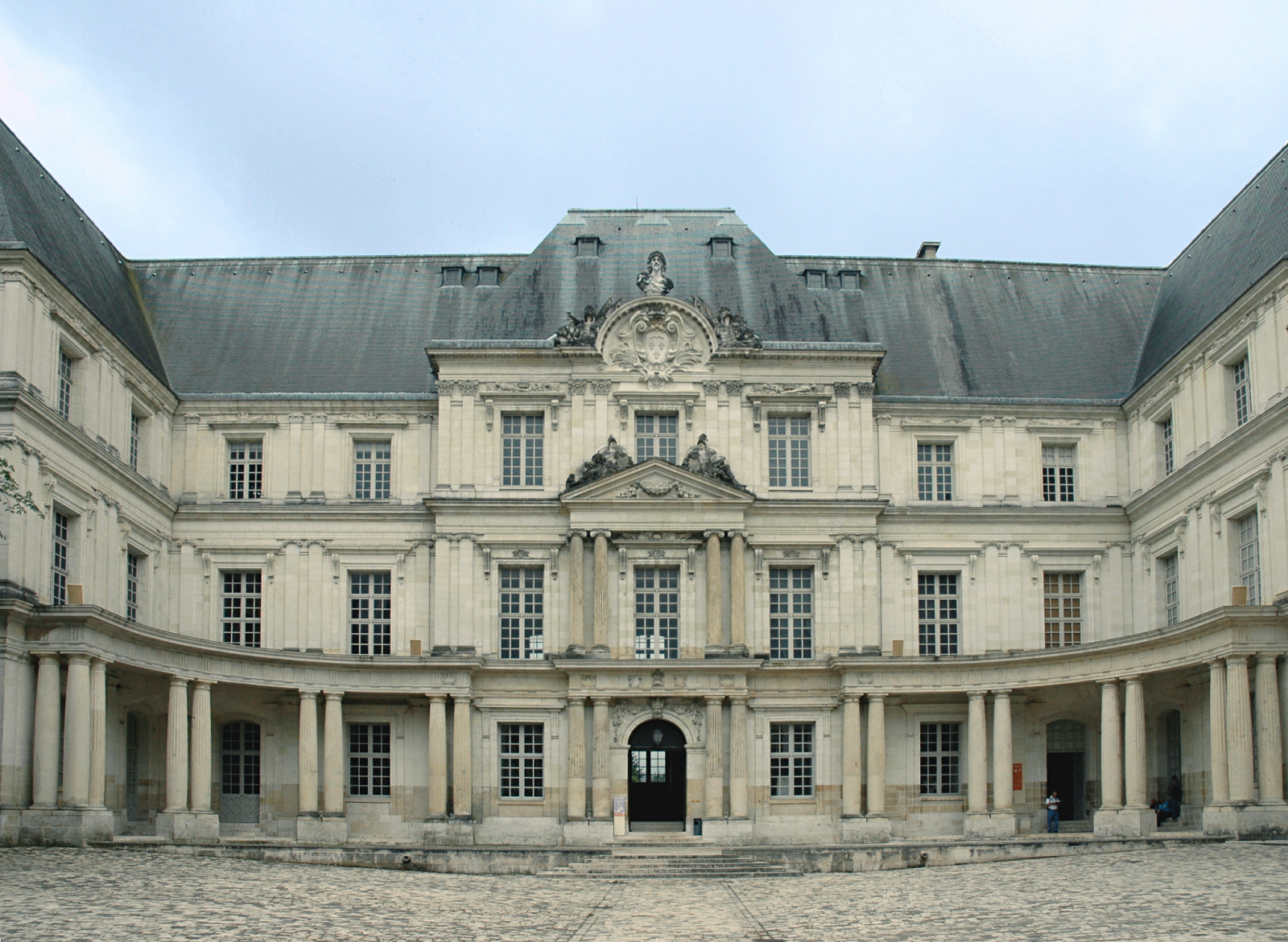 Château de Blois, Gaston d'Orléans wing